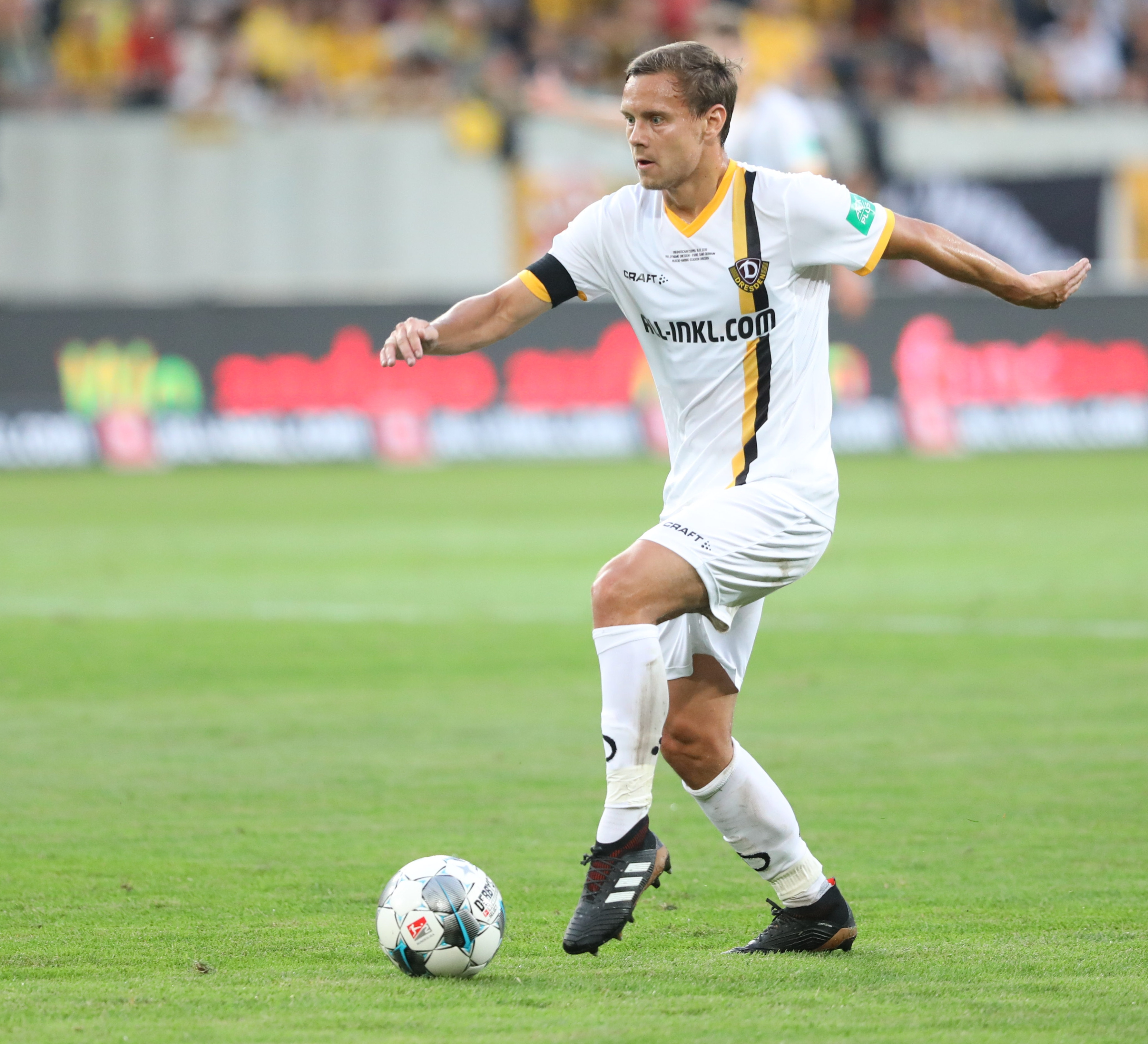 Test game, 17th July 2019: SG Dynamo Dresden vs. Paris Saint-Germain 1:6 (0:3)